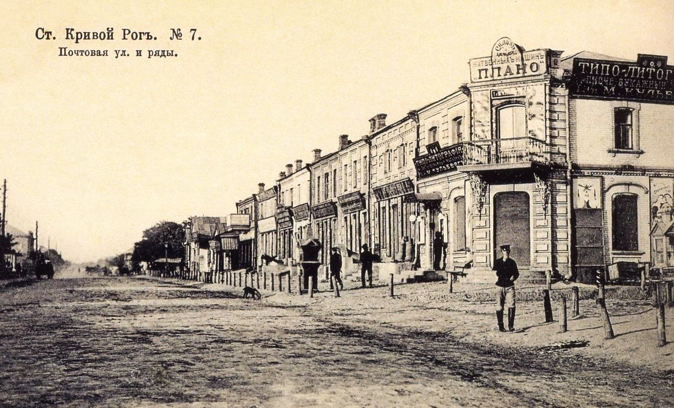 Kryvyi Rih Credit Union